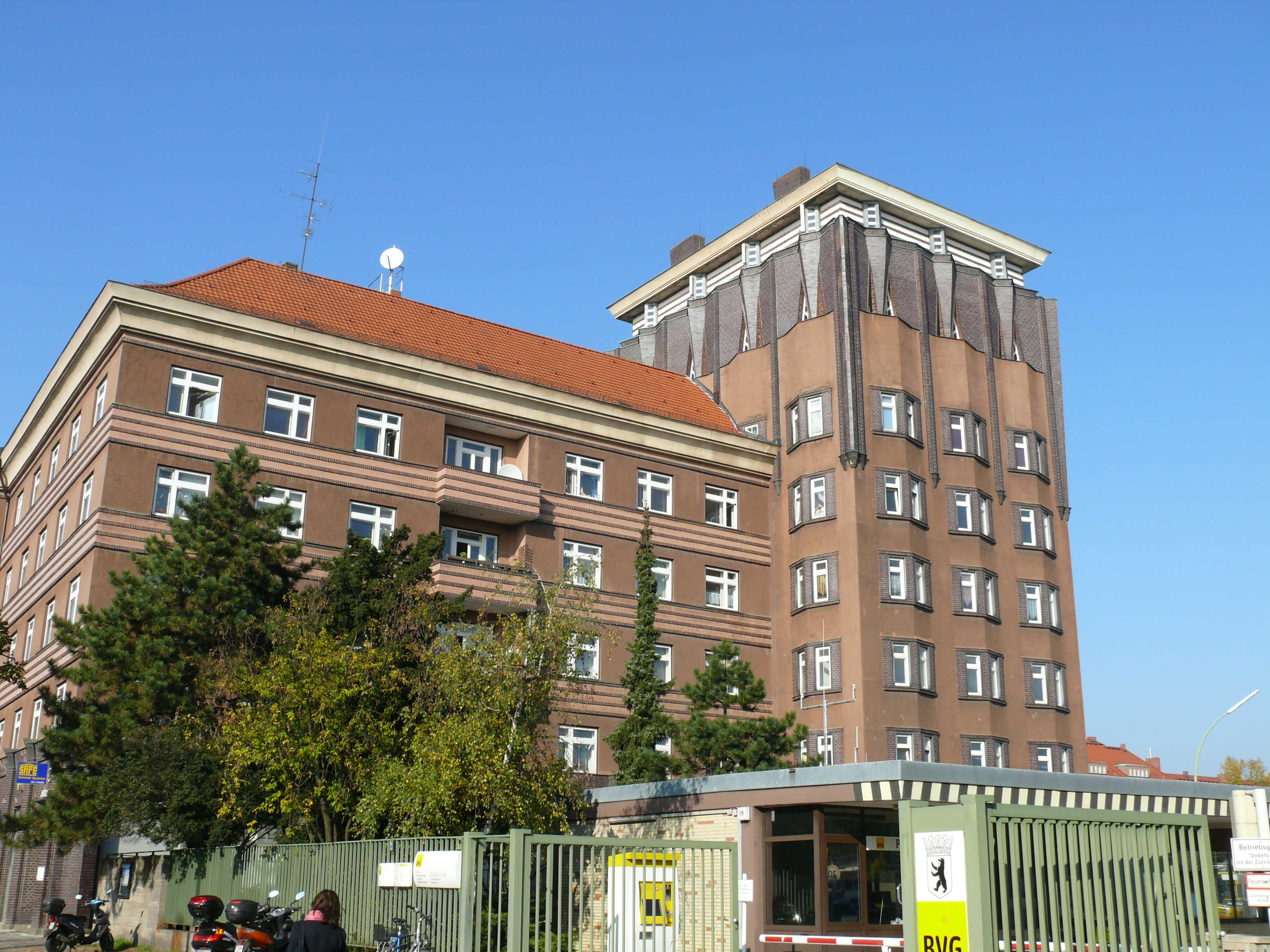 Berlin-Wedding Müllerstraße Autobus-Betriebshof